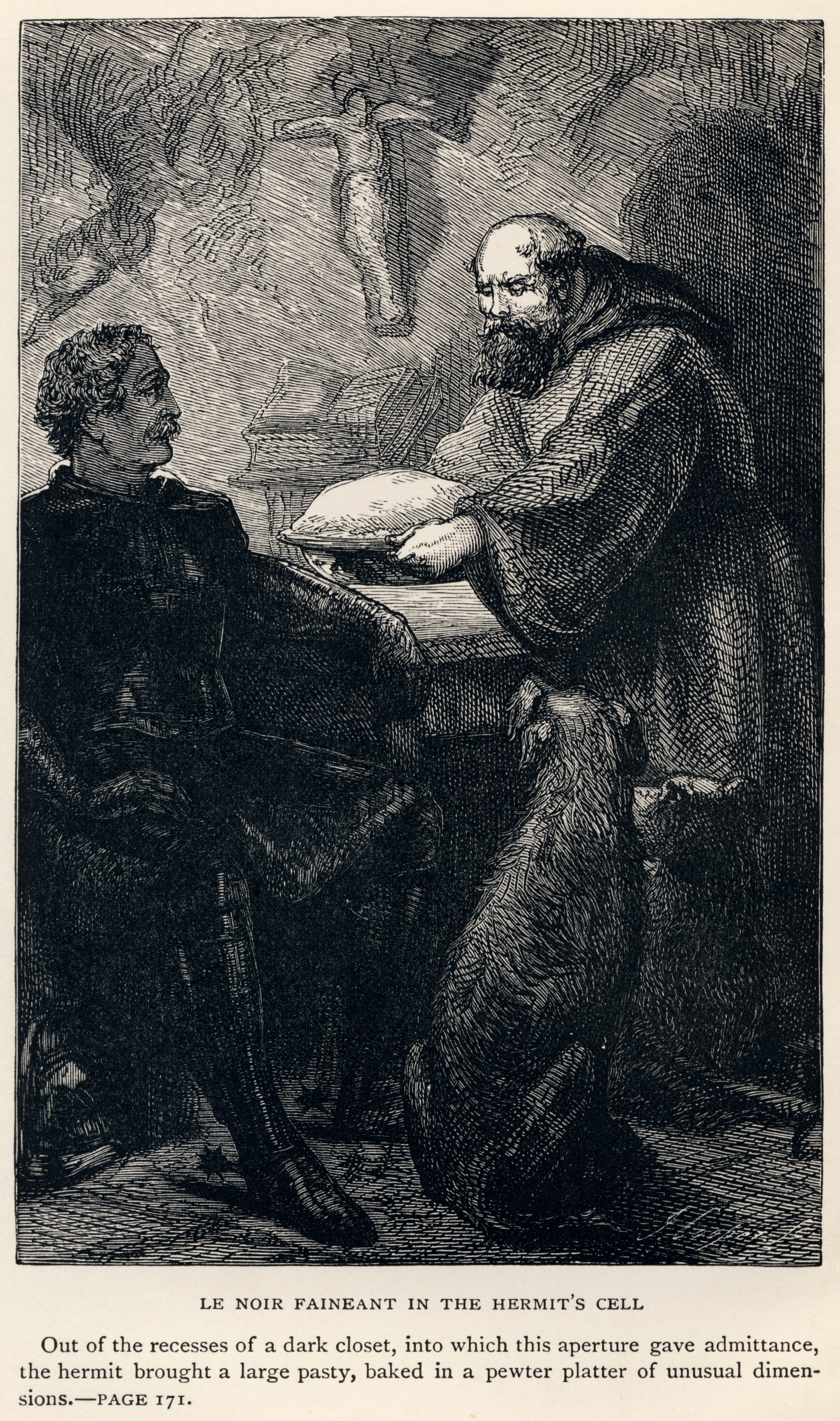 "Le Noir Faineant in the Hermit's Cell", by J. Cooper, Sr., after Sir Walter Scott's Ivanhoe. (If a few spoilers will be forgiven: Le Noir Faineant is King Richard the Lionheart, and the Hermit is Friar Tuck)